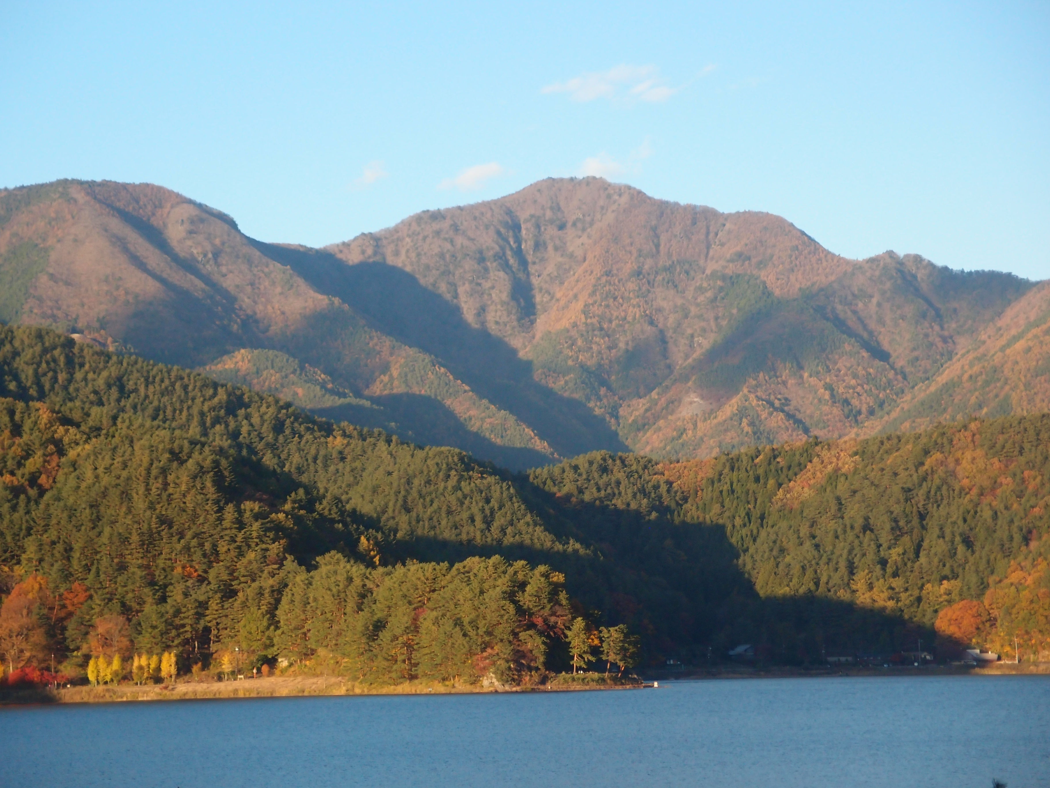 Lake Kawaguchio and Mount Kurodake.